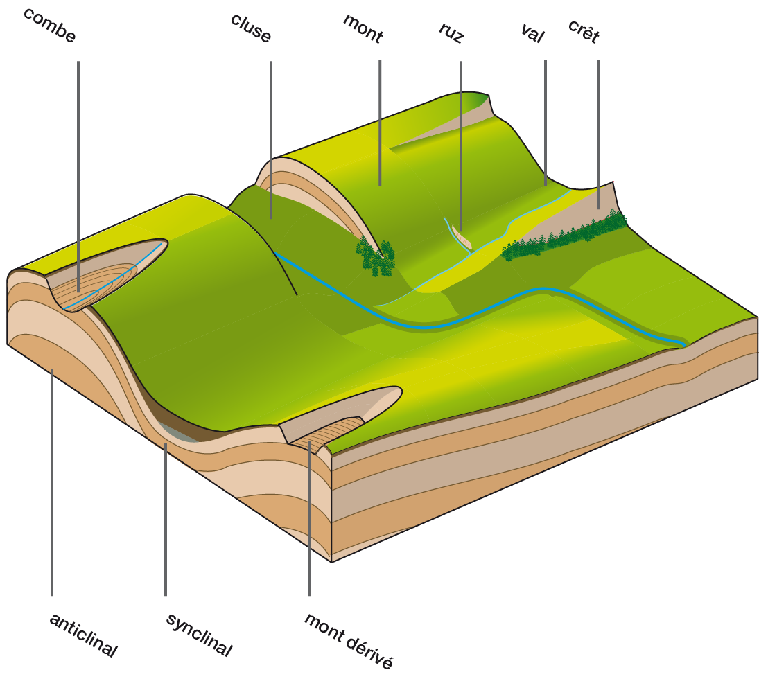 File:Jurassic relief.svg is a vector version of this file. It should be used in place of this raster image when not inferior. File:Jurrassique.png File:Jurassic relief.svg For more information, see Help:SVG. Templates:Vector version available/I18n